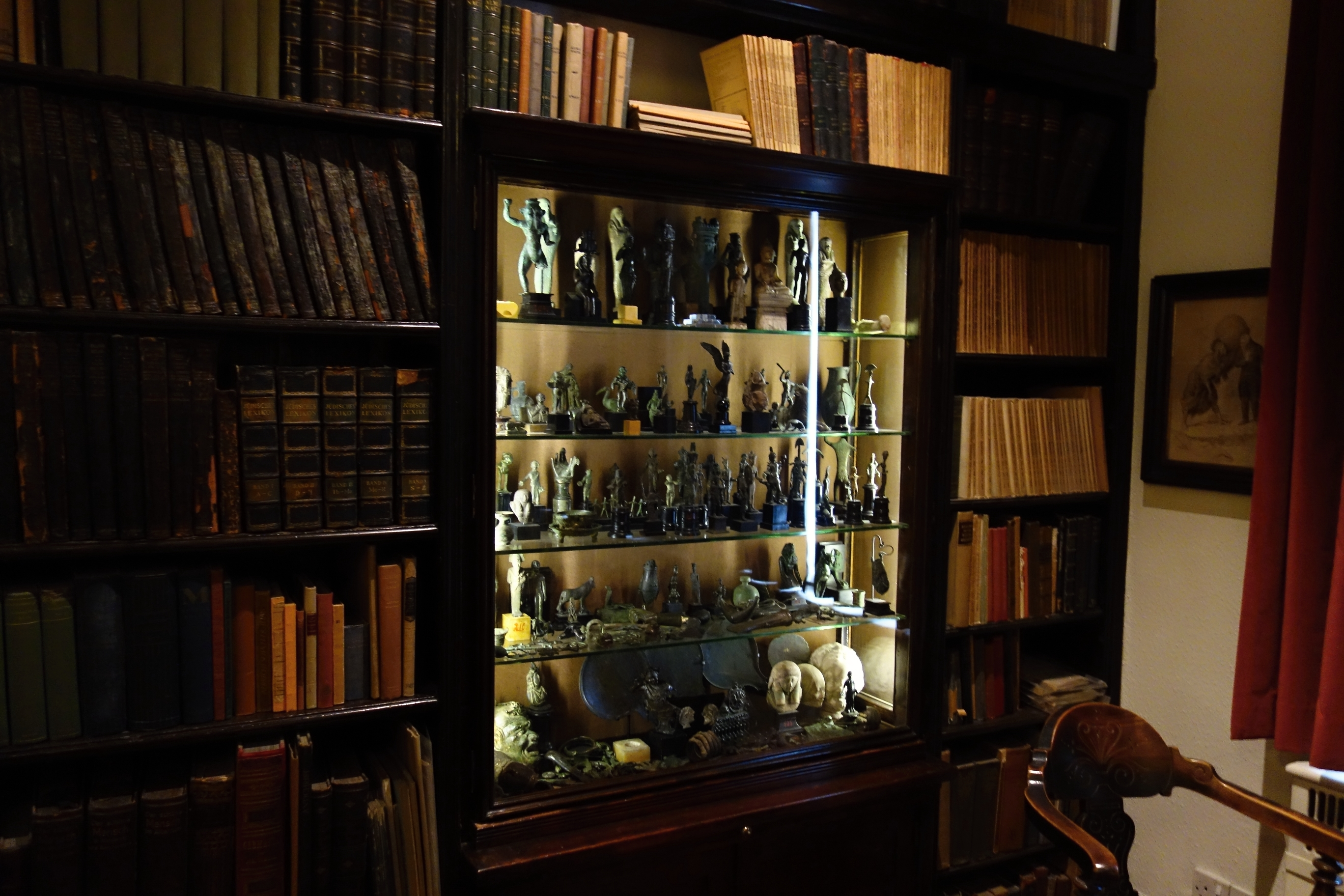 The Study - second part, books and collection of antiquities. Freud Museum London.